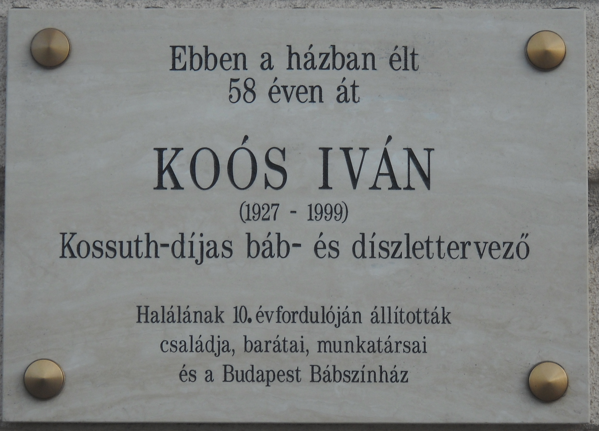 Commemorative plaque of Iván Koós in Budapest District II, Széll Kálmán Square No 3